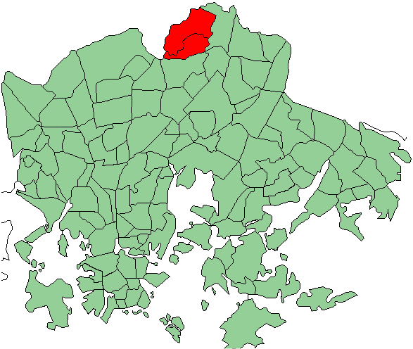 Districts of Helsinki, Suutarila area highlighted (in Finnish: Suutarilan peruspiiri)